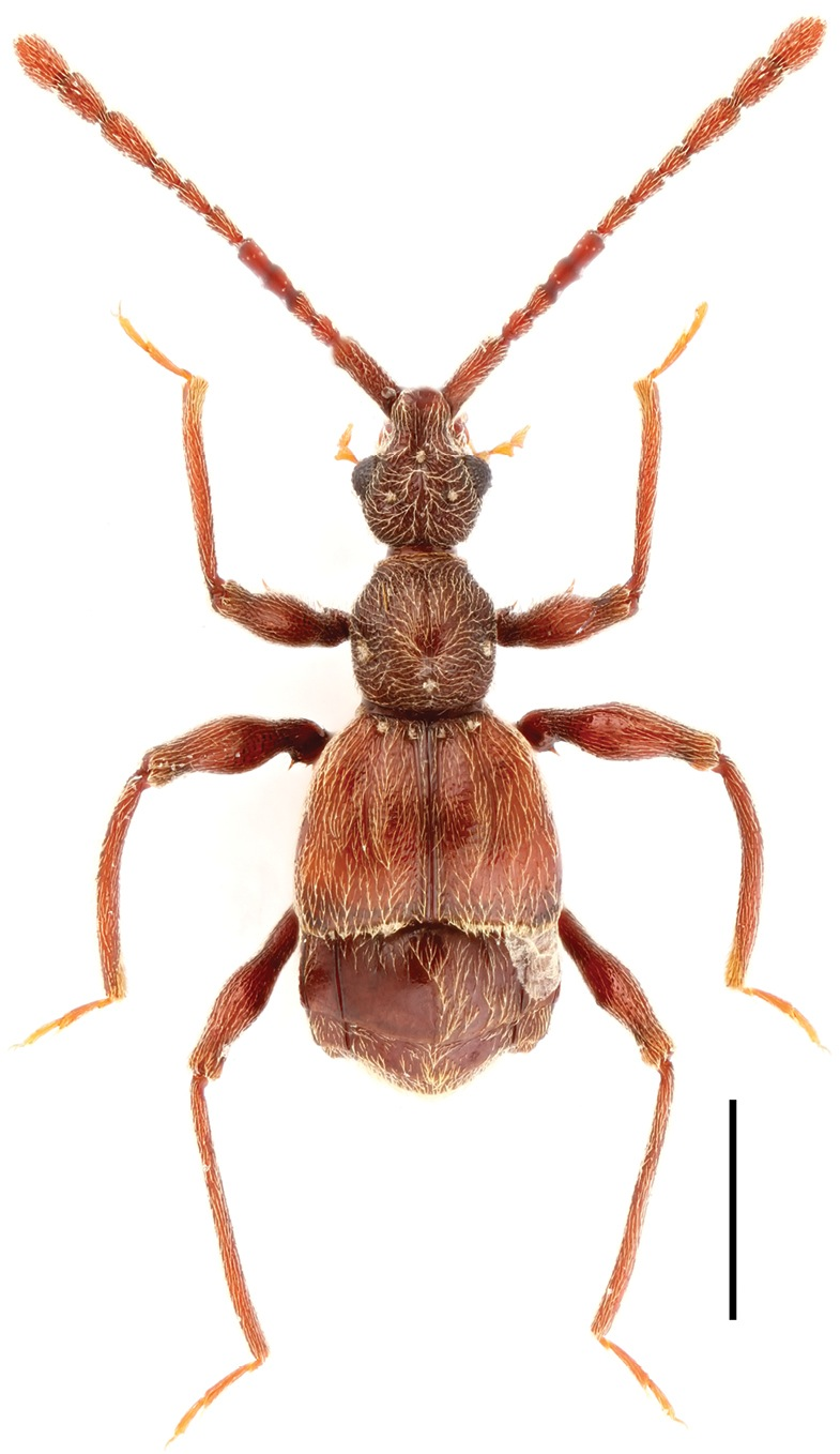 Male habitus of Pselaphodes kuankuoshuiensis. Scale: 1.0 mm.